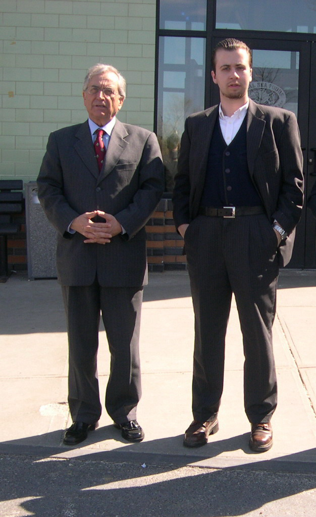 Theology professor Athanasios Angelopoulos with his nephew and collaborator, student of diplomacy Nikolaos Mottas. In Boston, United States, April 2006.